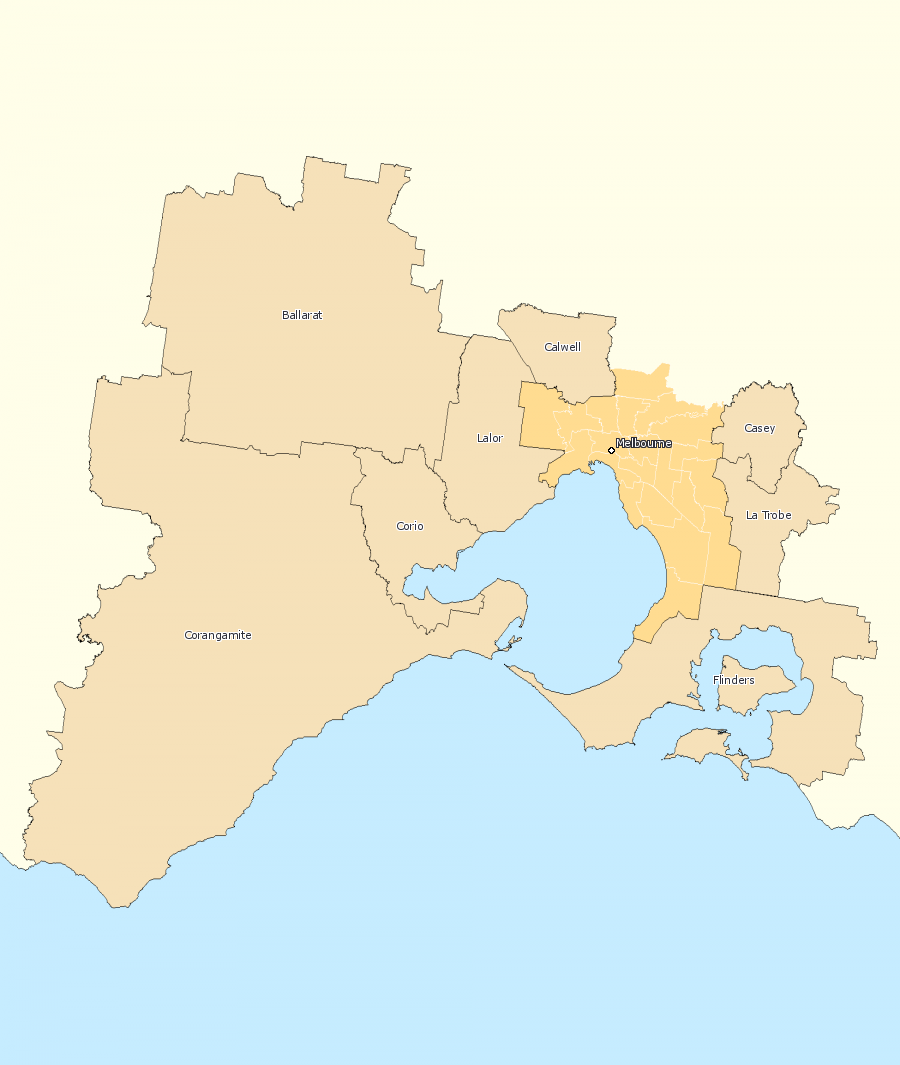 This image incorporates data that is: © Commonwealth of Australia (Australian Electoral Commission) 2009 Outside Melbourne divisions overview 2010